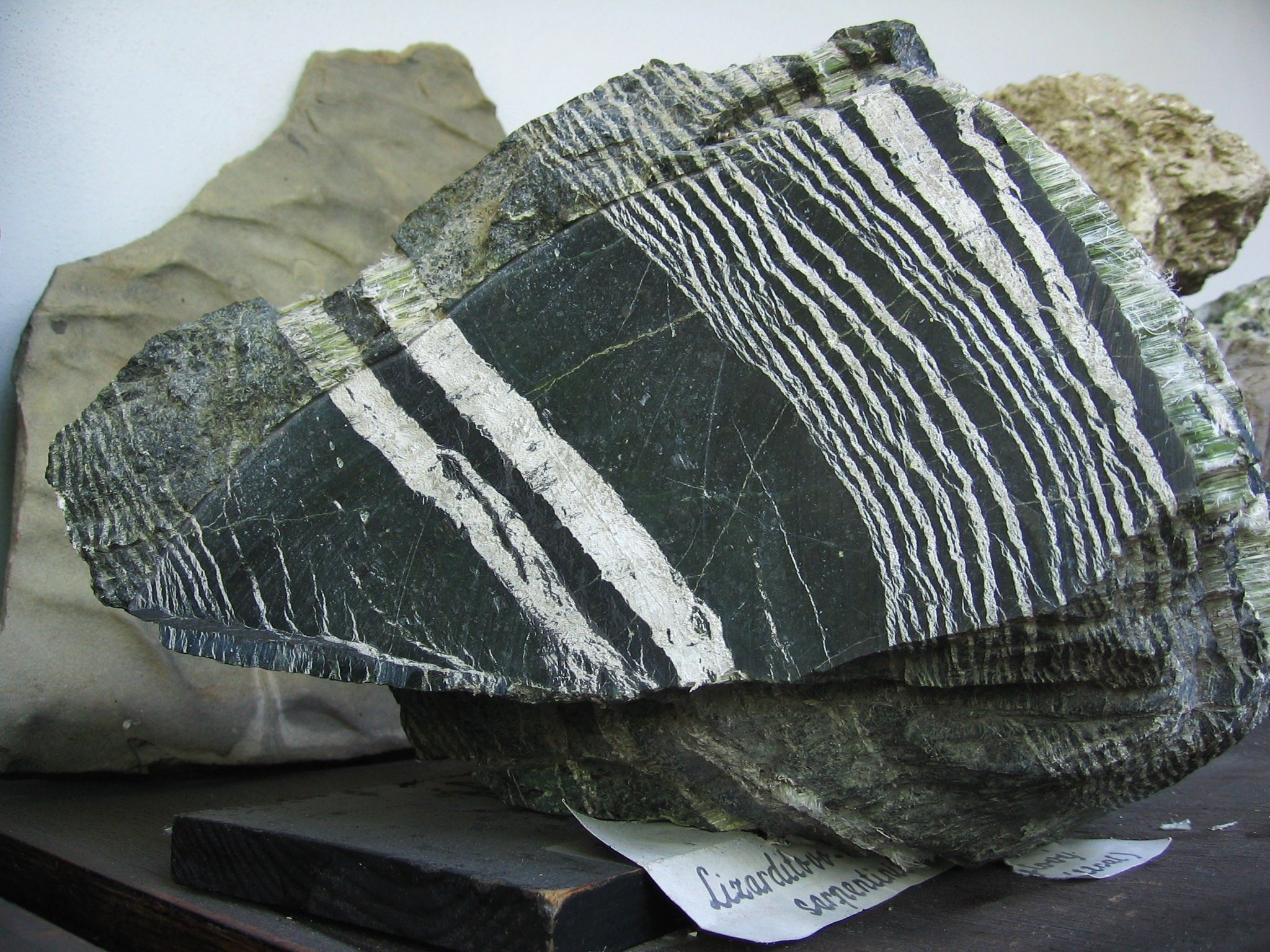 Pollished side of serpentinite sample from Dobšiná, Rožňava district, Košice region, Slovakia. Width of pollished side of the rock si approximately 15 cm. Sample from the collection of the Department of geology and paleontology of Comenius University, Bratislava.